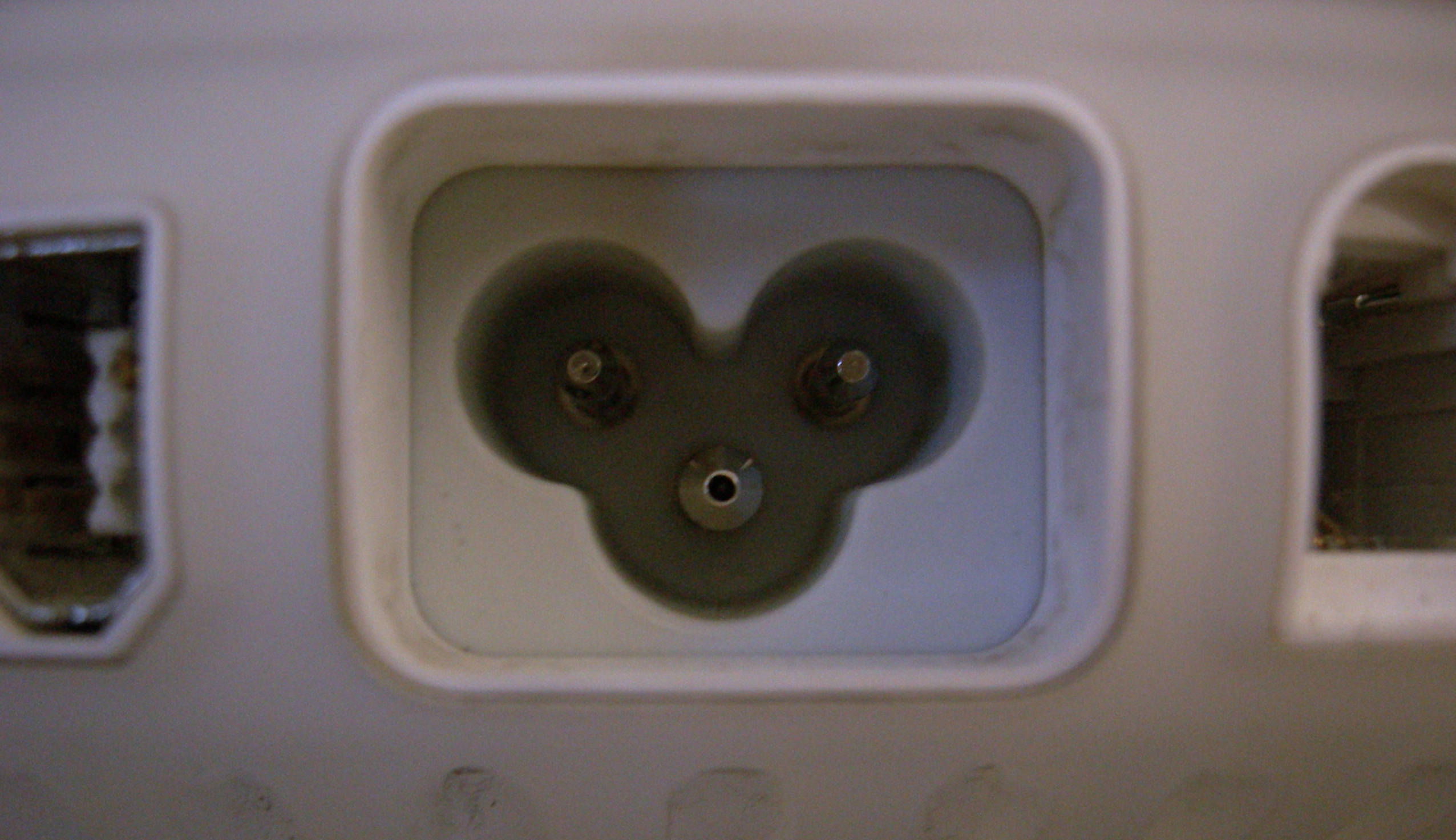 C5 3-conductor 2.5 A (Mickey Mouse plug), on the Apple iMac G4